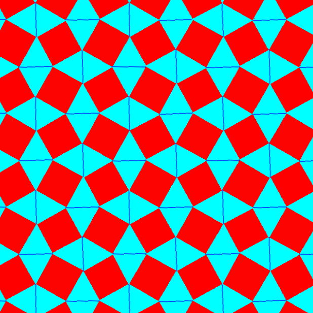 Snub square tiling, h01 symmetry